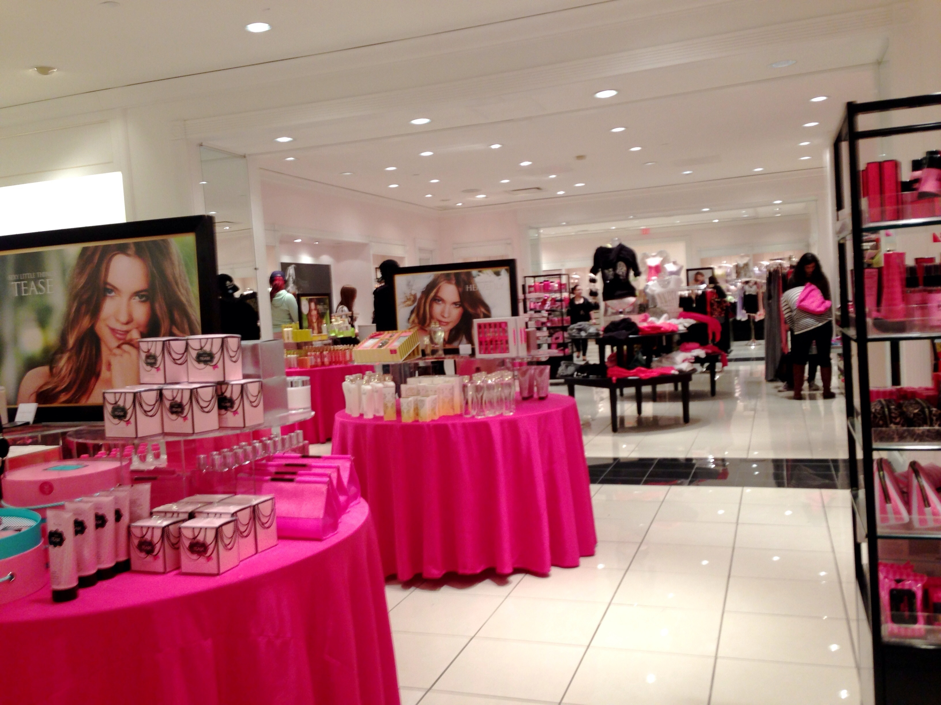 Victoria Secret Store 2013